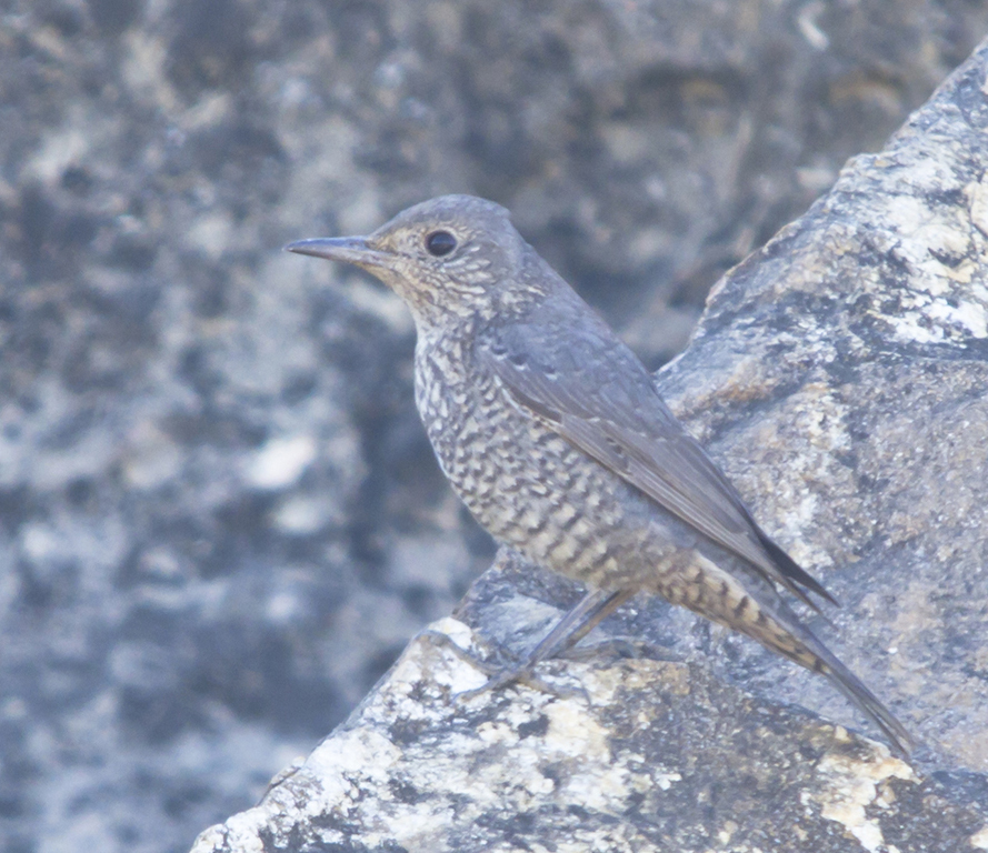 On the rocks